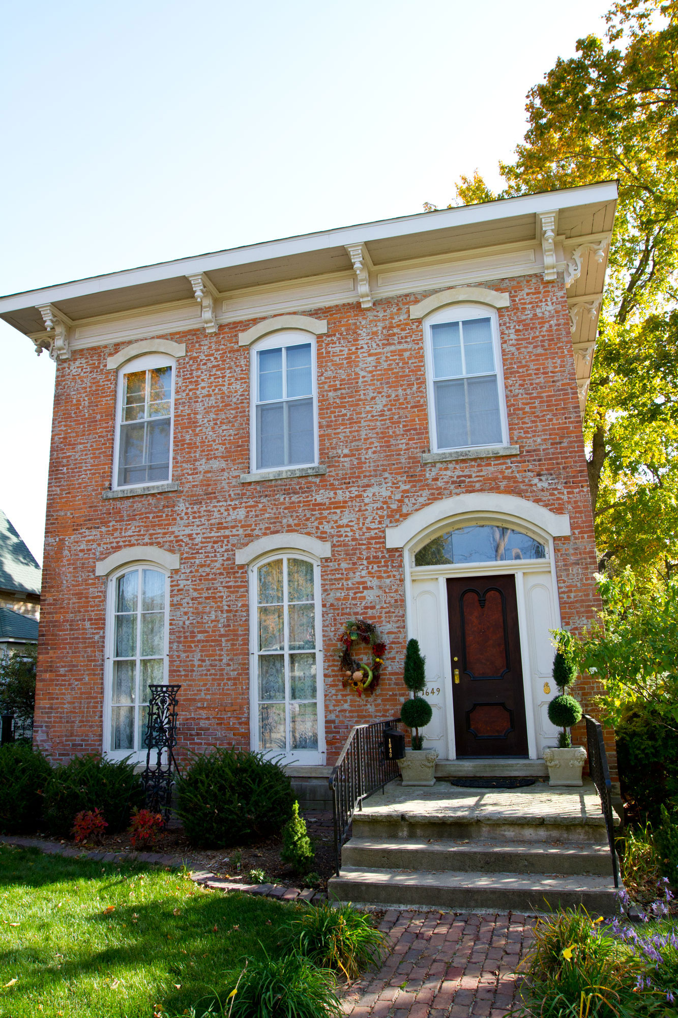 Cardell House, 1649 8th Ave. Marion, Iowa in the Pucker Street Historic District.